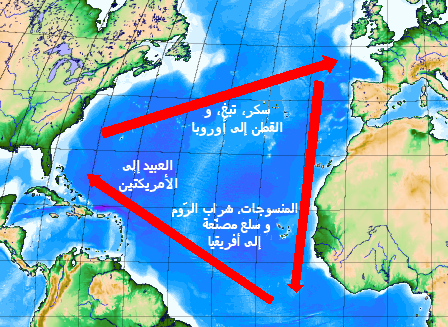 Modified version of Image:World map.png, which was created by John Monnpoly